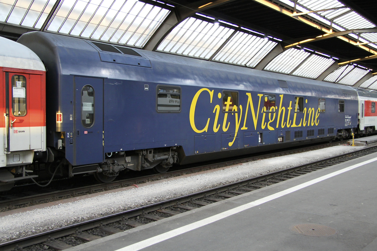 Privately owned (by CityNightLine) WLABm 61 85 06-94 309-0P at Zürich HB.